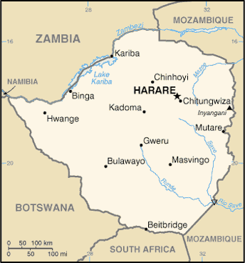 Map of Zimbabwe, showing major towns.